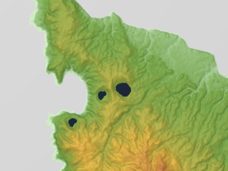 Megata Volcano (maar) & Toga Volcano (tuff ring) in Oga Peninsula, Akita Prefecture, Honshu, Japan.